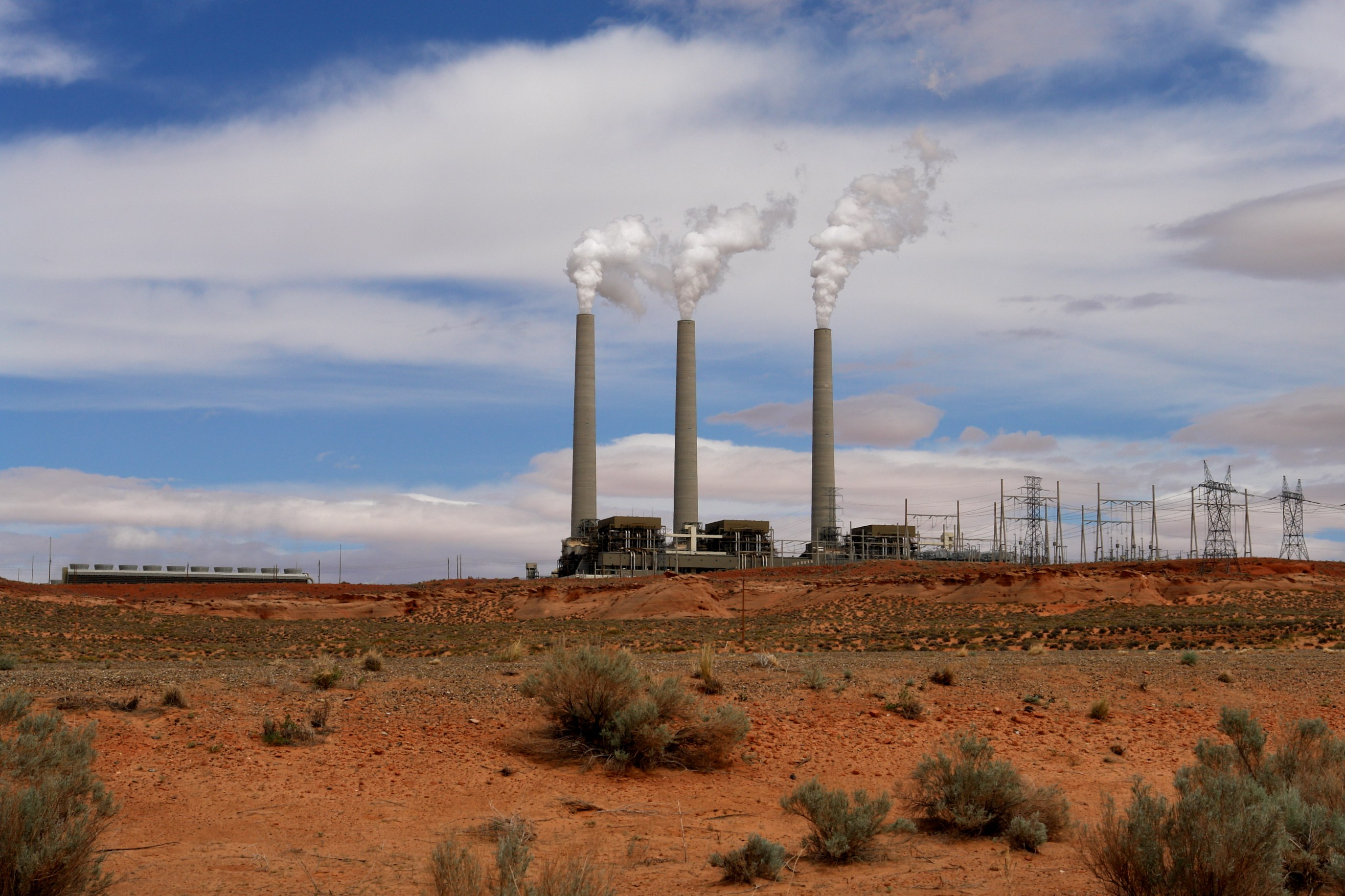 Navajo Generating Station, Navajo Reservation, Page, Arizona (Power Plant)